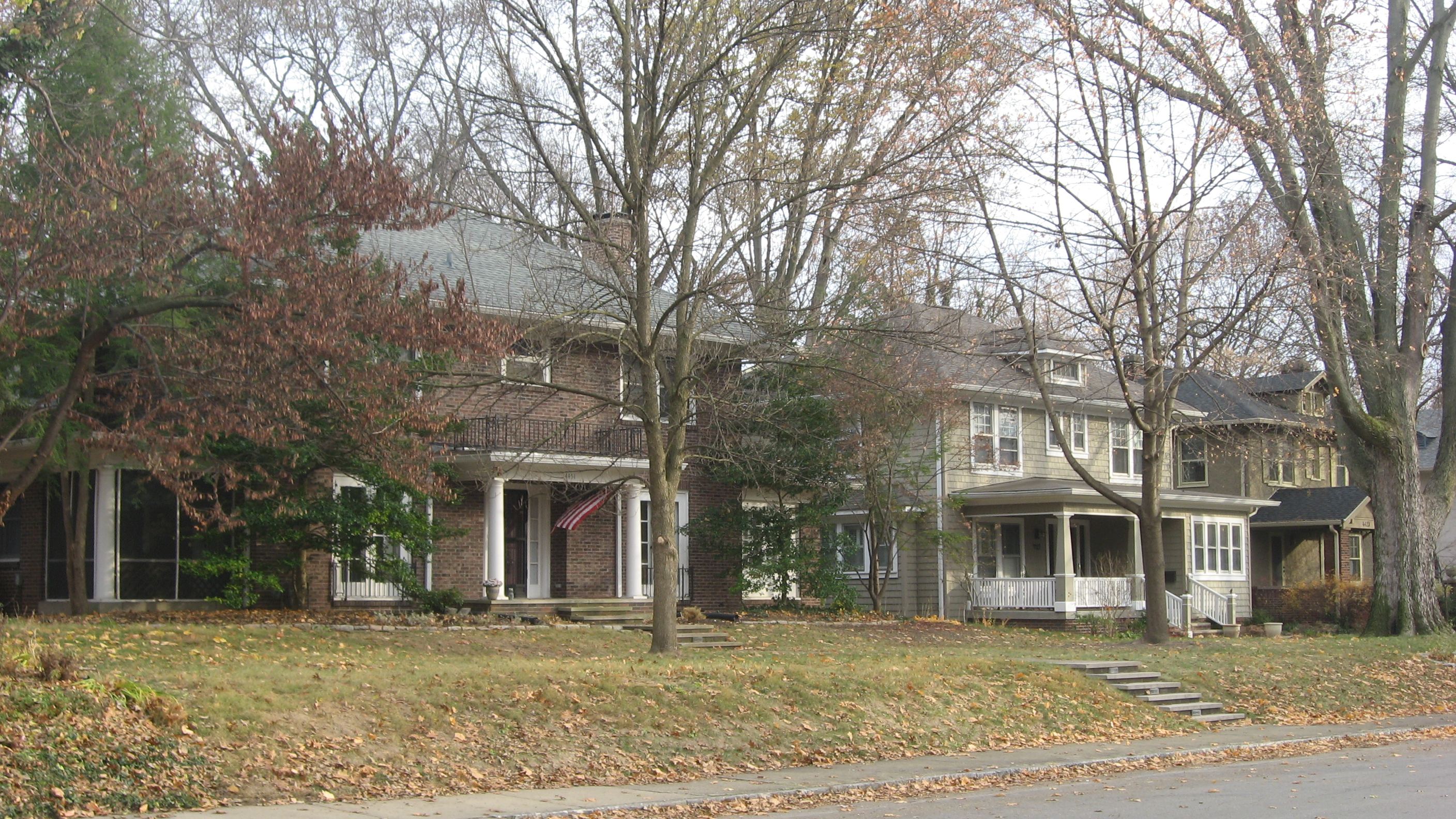 Houses on the eastern side of the 4400 block of N. Park Avenue in Indianapolis, Indiana, United States. This block is part of the Oliver Johnson's Woods Historic District, a historic district that is listed on the National Register of Historic Places.